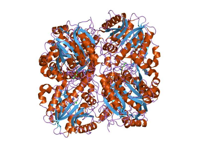 Cartoon representation of the molecular structure of protein registered with 1wog code.